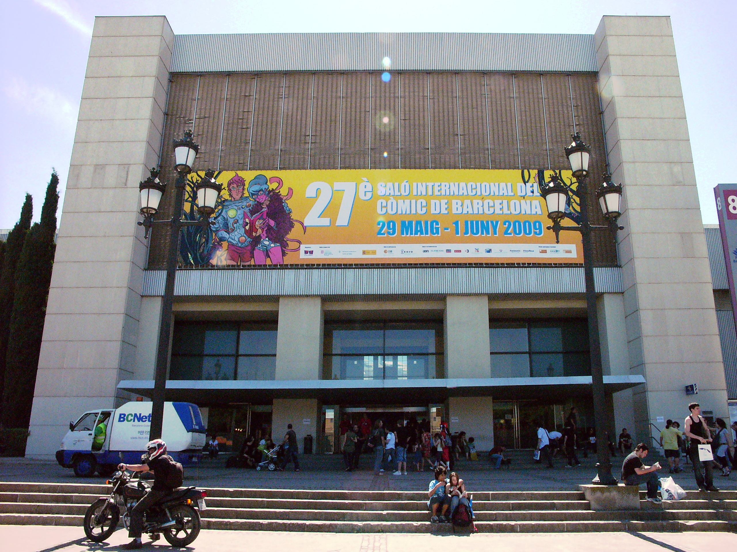 overview of 27th Barcelona International Comic Fair.